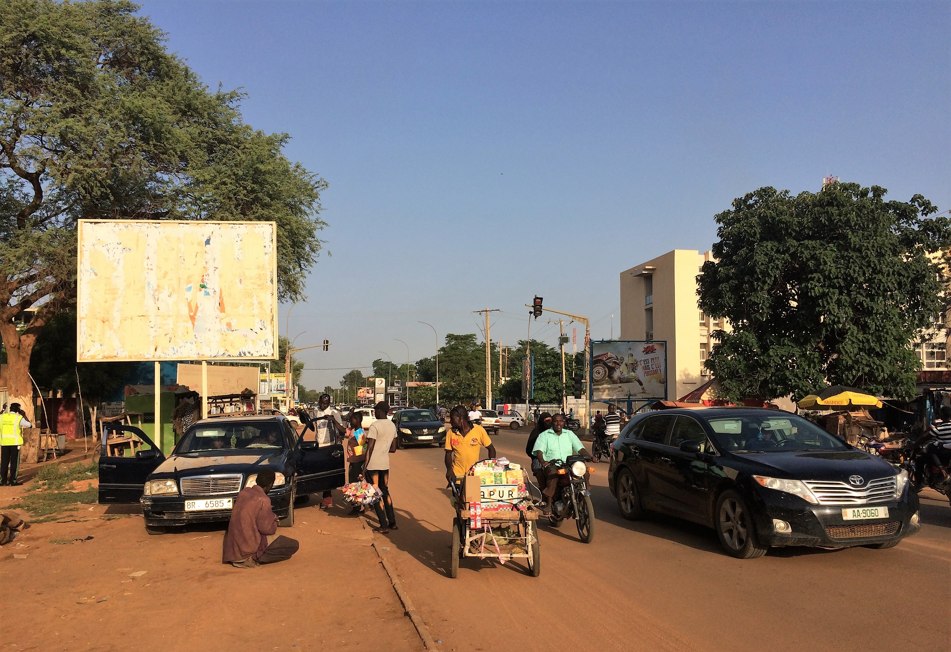 The Boulevard de l'Indépendance (Rue YN-2, also known as Road RN-1) in Niamey, Niger